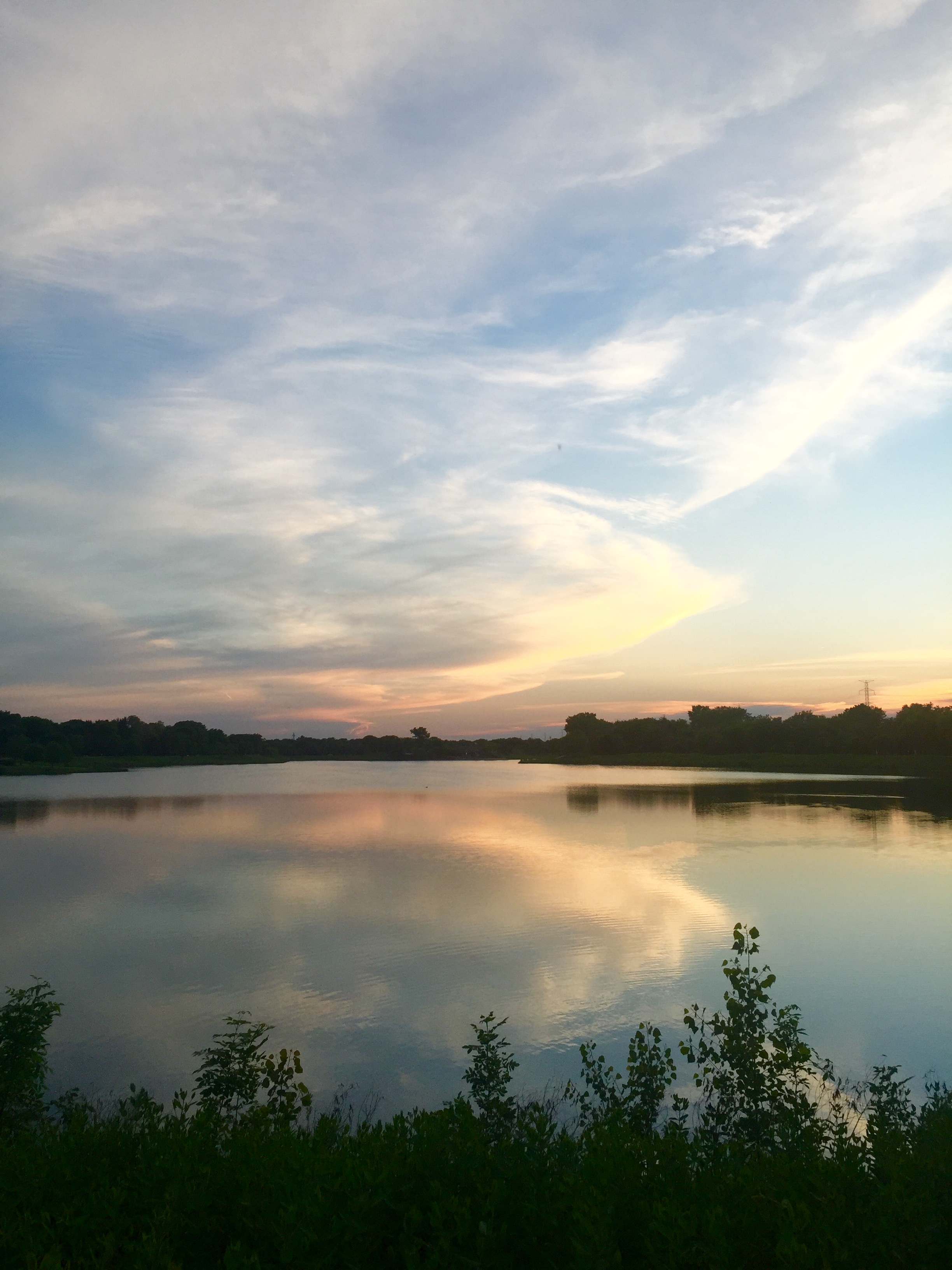 Lake Arlington at sunset. Picture taken on the east side of the lake, facing west.